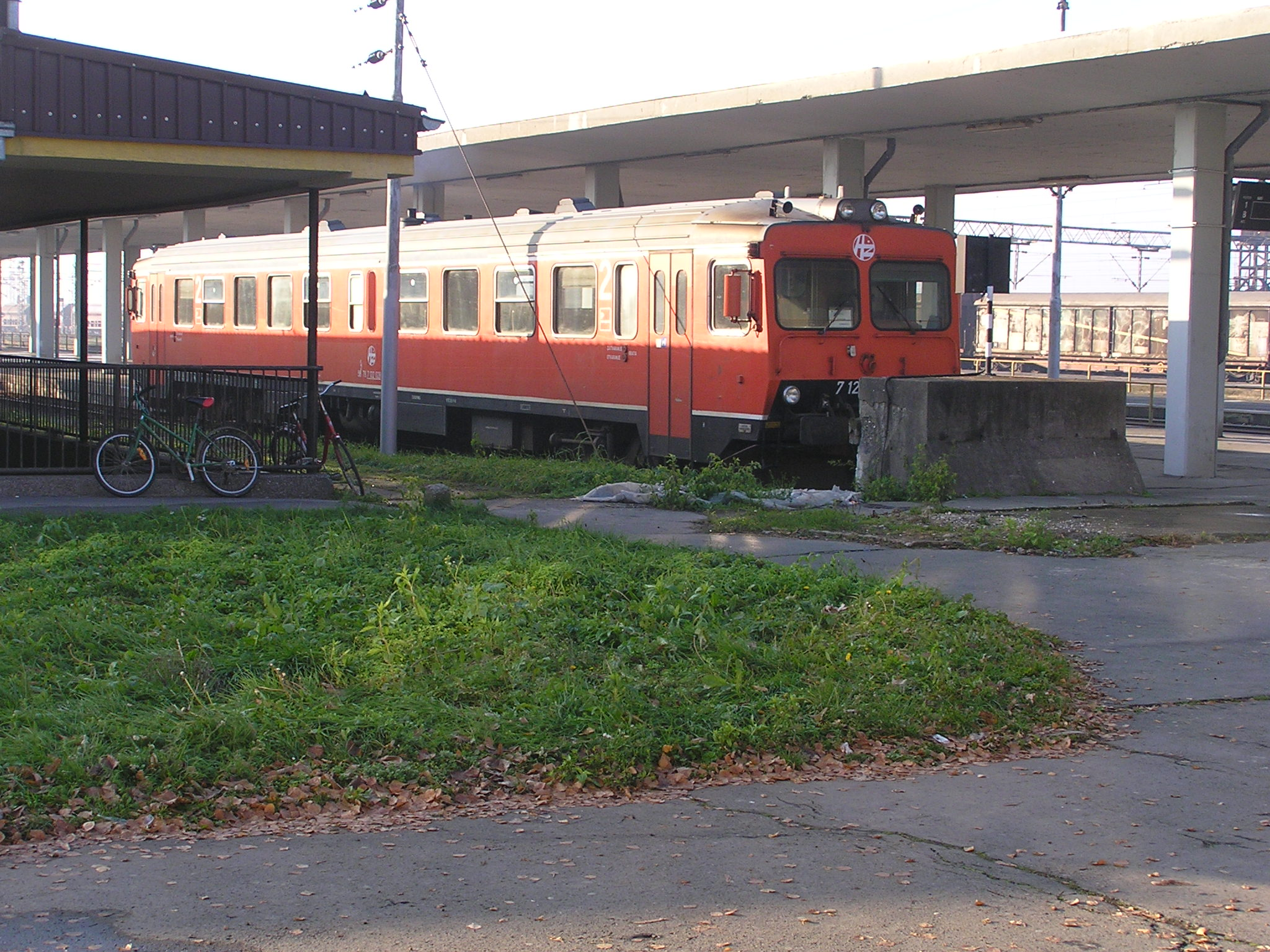 A Y1 FIAT train in Vinkovci station (Županja bound) waiting in the sunset